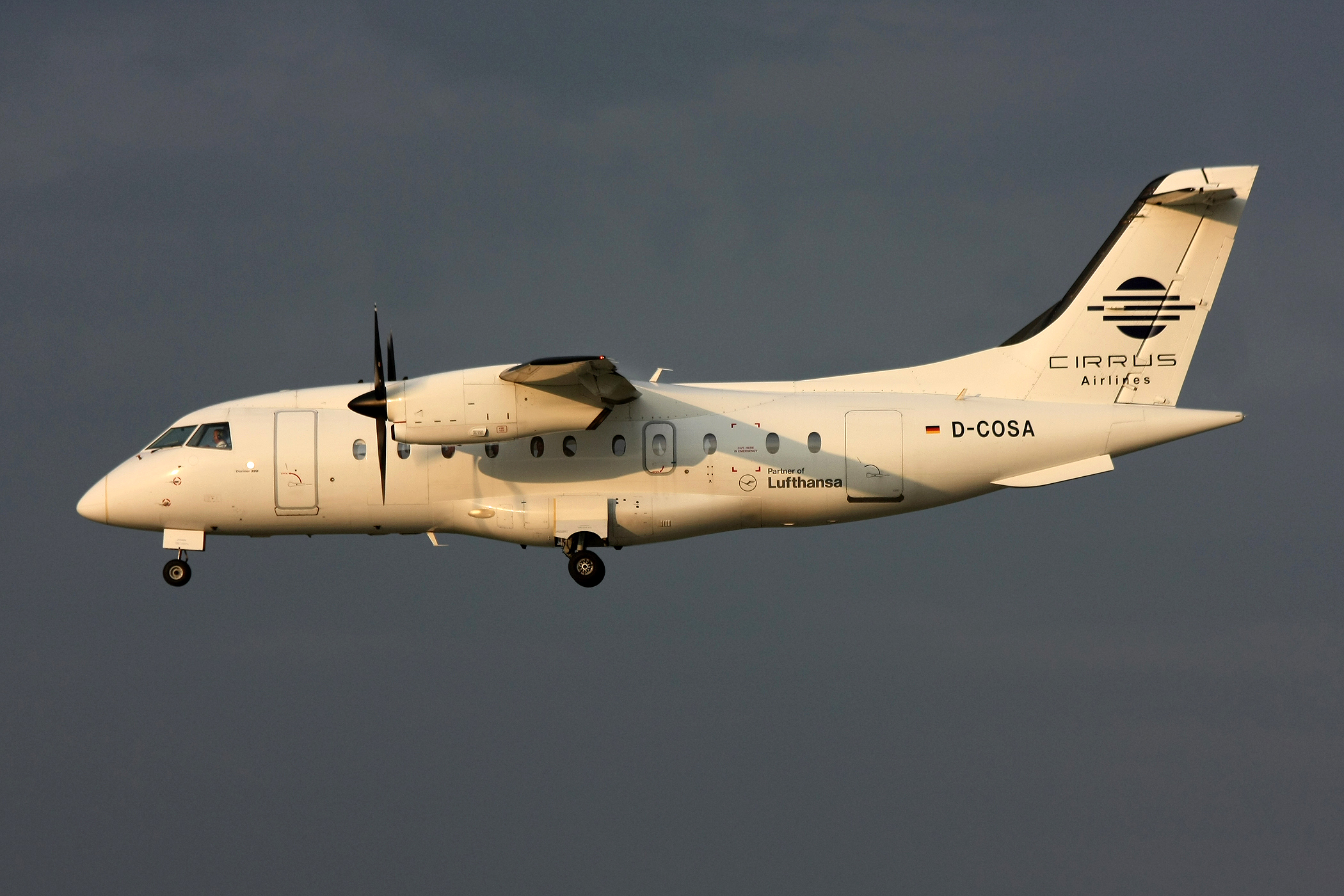 Cirrus Airlines at Zurich Airport